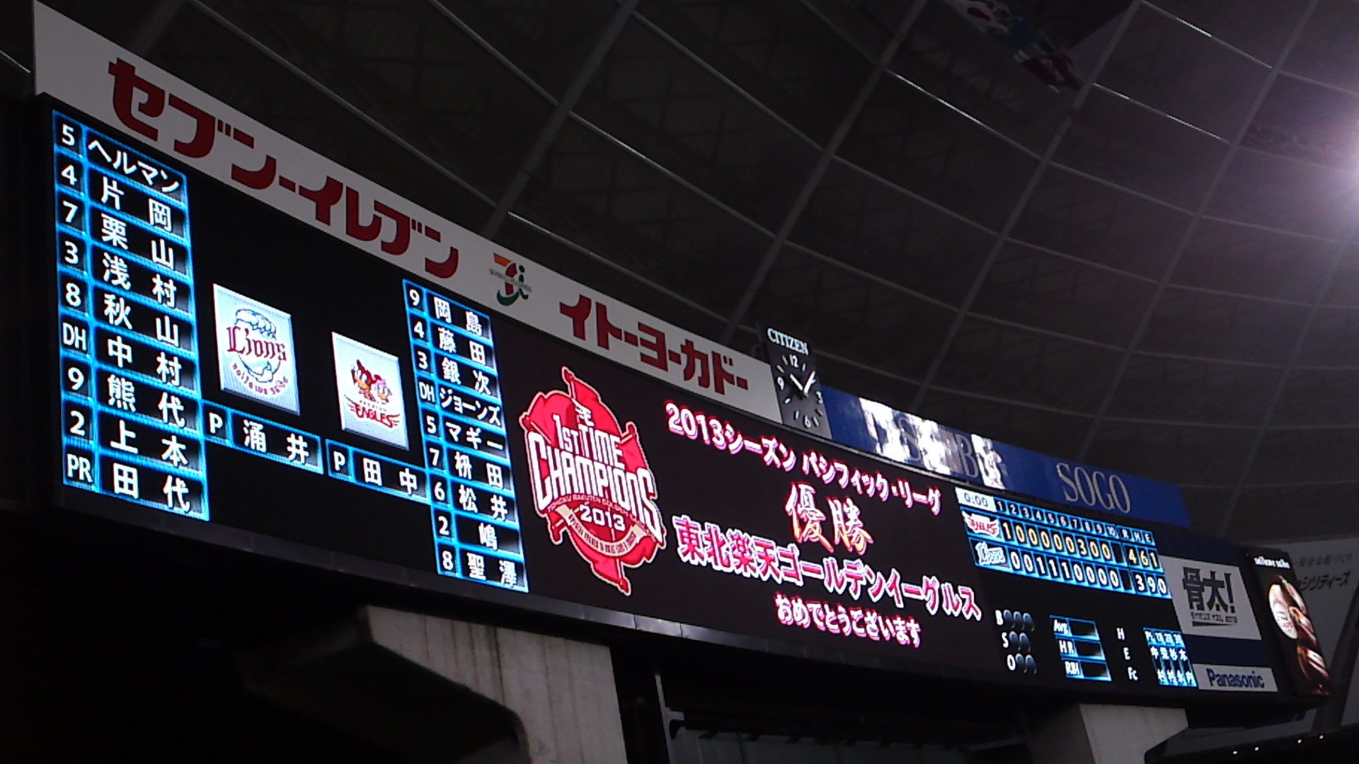 Tohoku Rakuten Eagles is the winner 2013 Pacific Pro-Baseball League at Seibu Dome Stadium